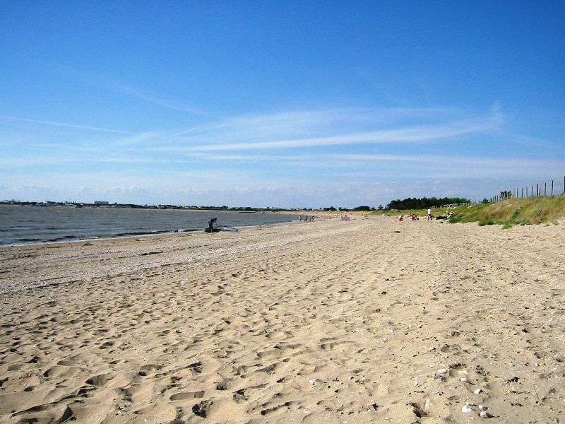 Beach at Aytre, France. Personal photograph 2005.